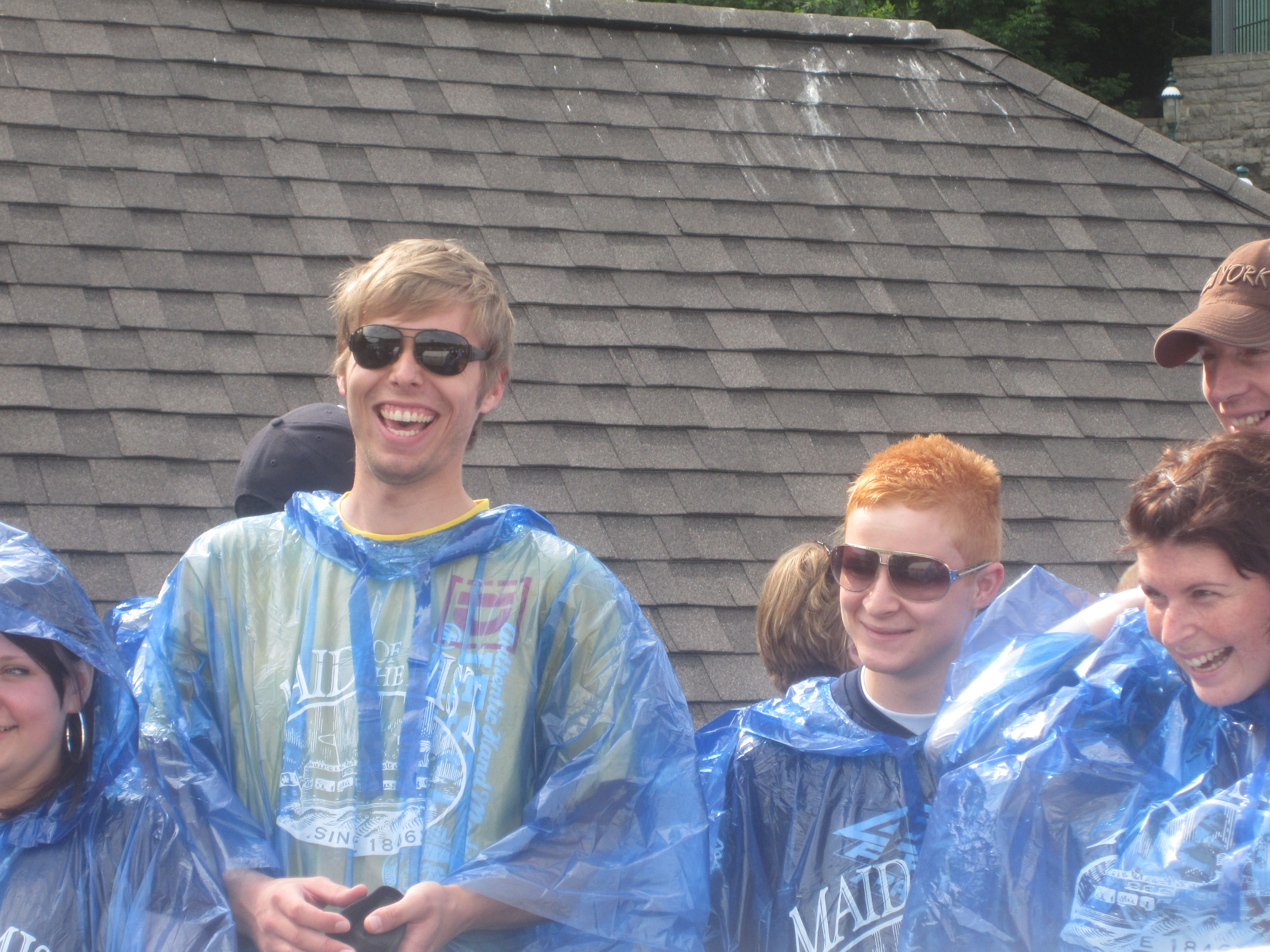 Tourists in blue raincoats on the Maid of the Mist at Niagara Falls